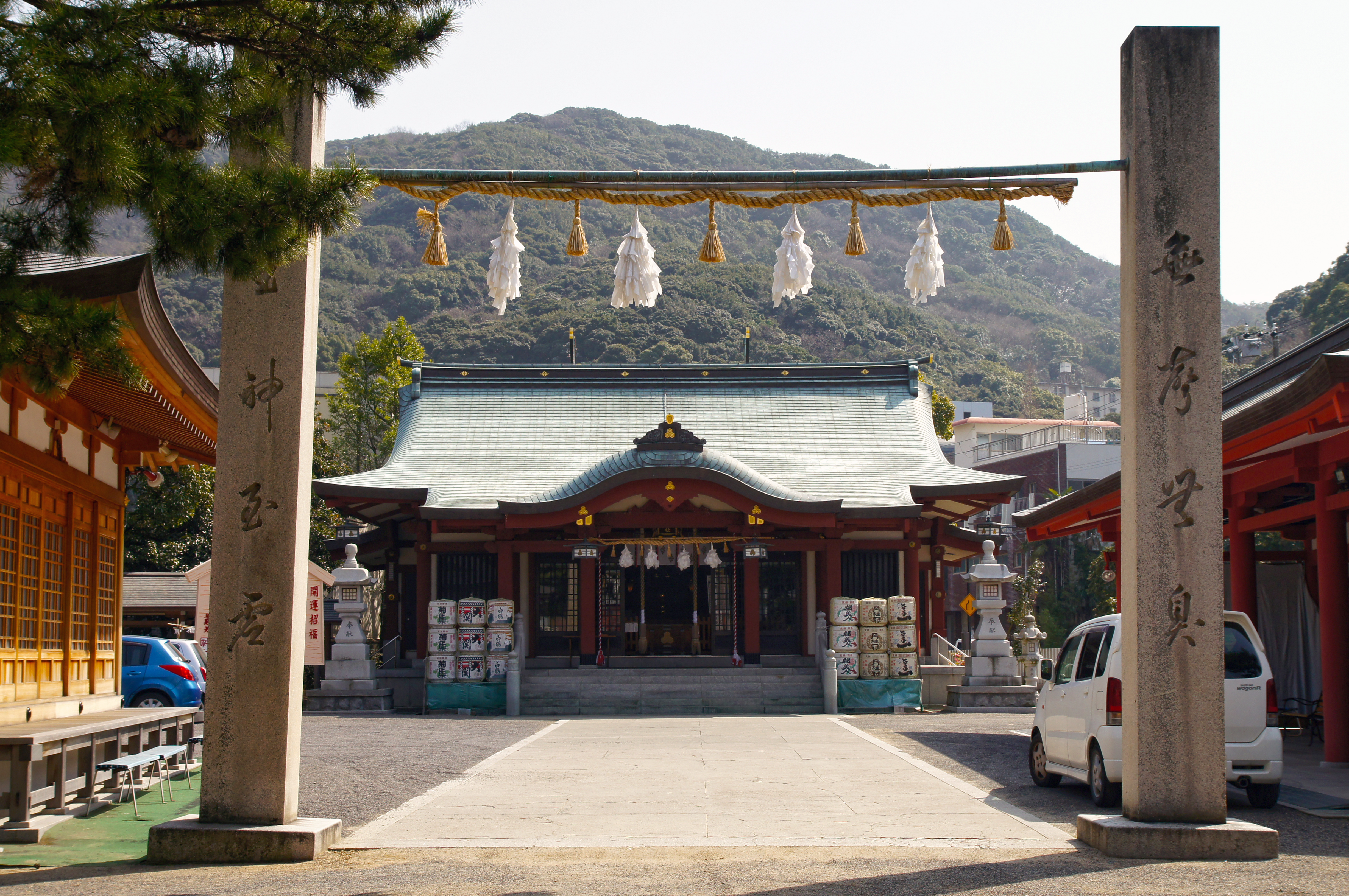 Itsukushima-jinja in Sumoto, Hyogo prefecture, Japan.